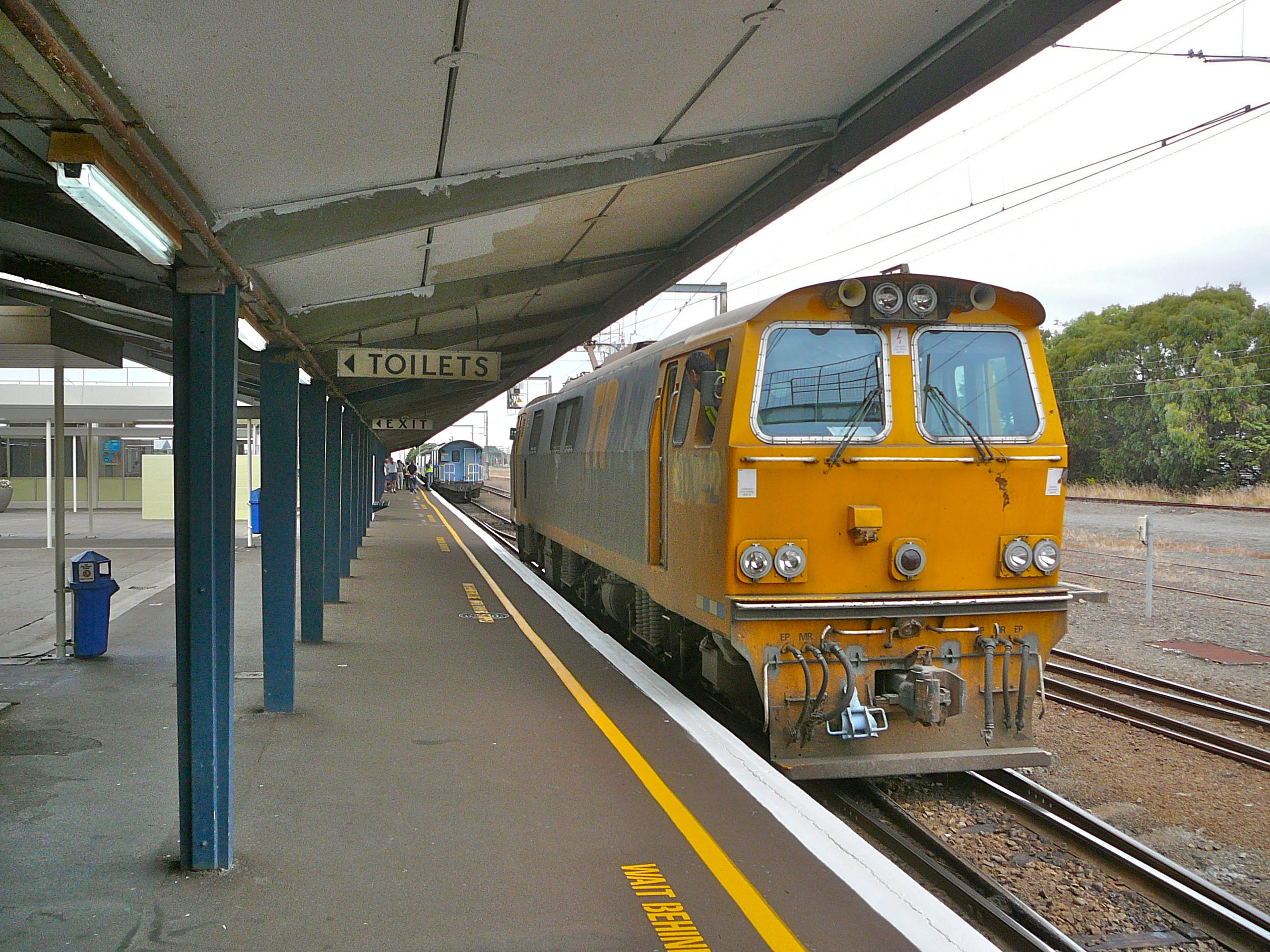 EF Class backing onto Wellington to Auckland train